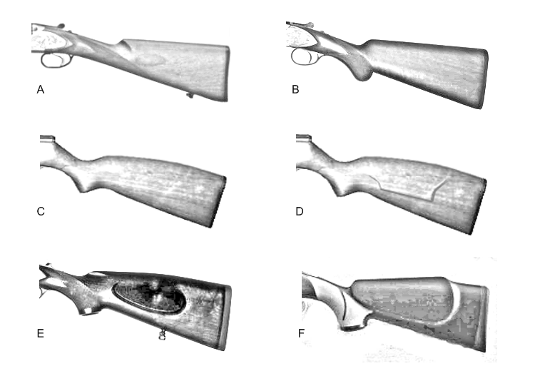 Buttstocks, A: english, B: pistol grip, C: , D: , E: Monte-Carlo-Effect